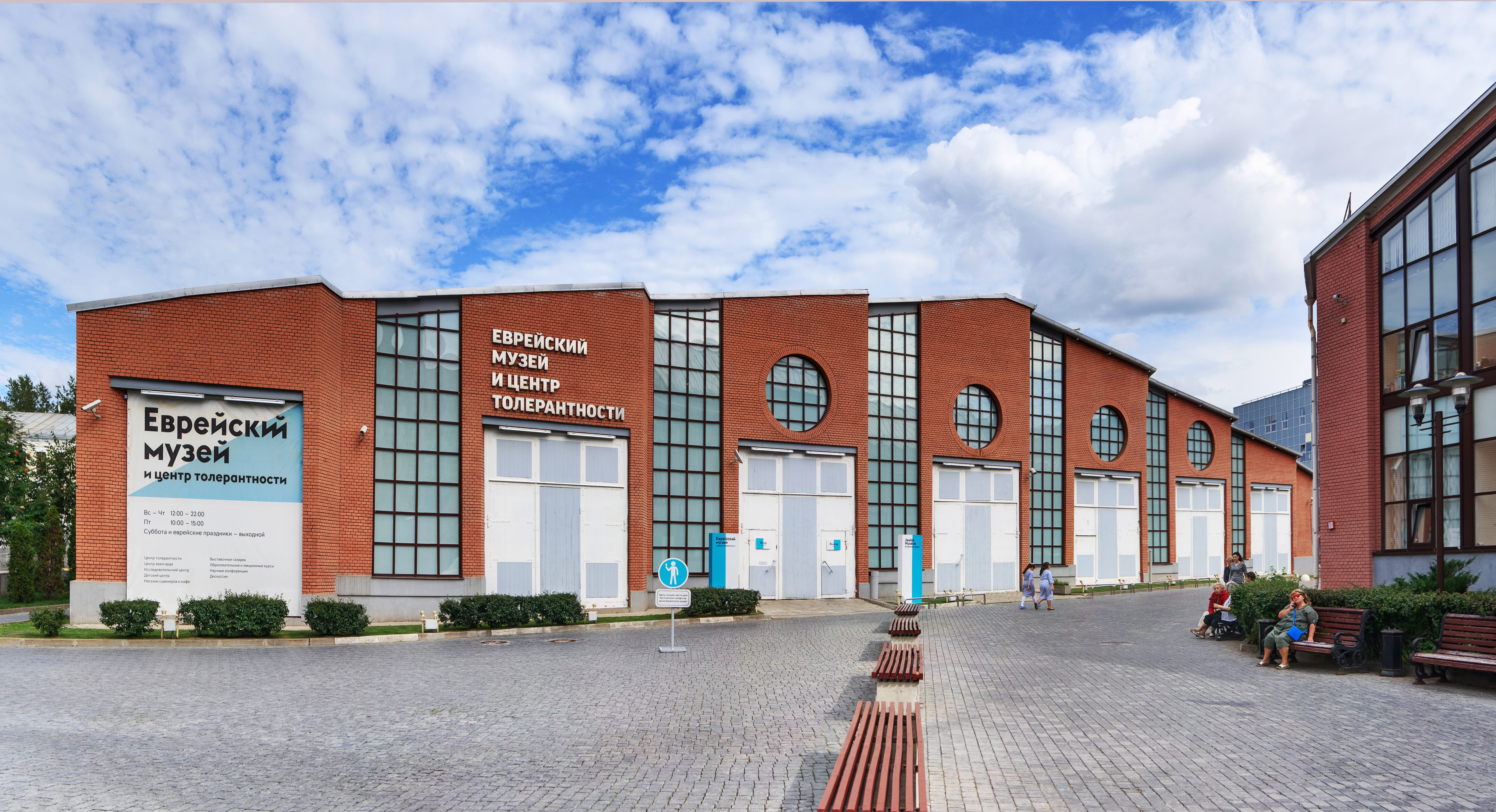 Former Bakhmetevsky Bus Garage, now Jewish Museum and Tolerance Center, Obraztsova Street 11, Moscow, Russia